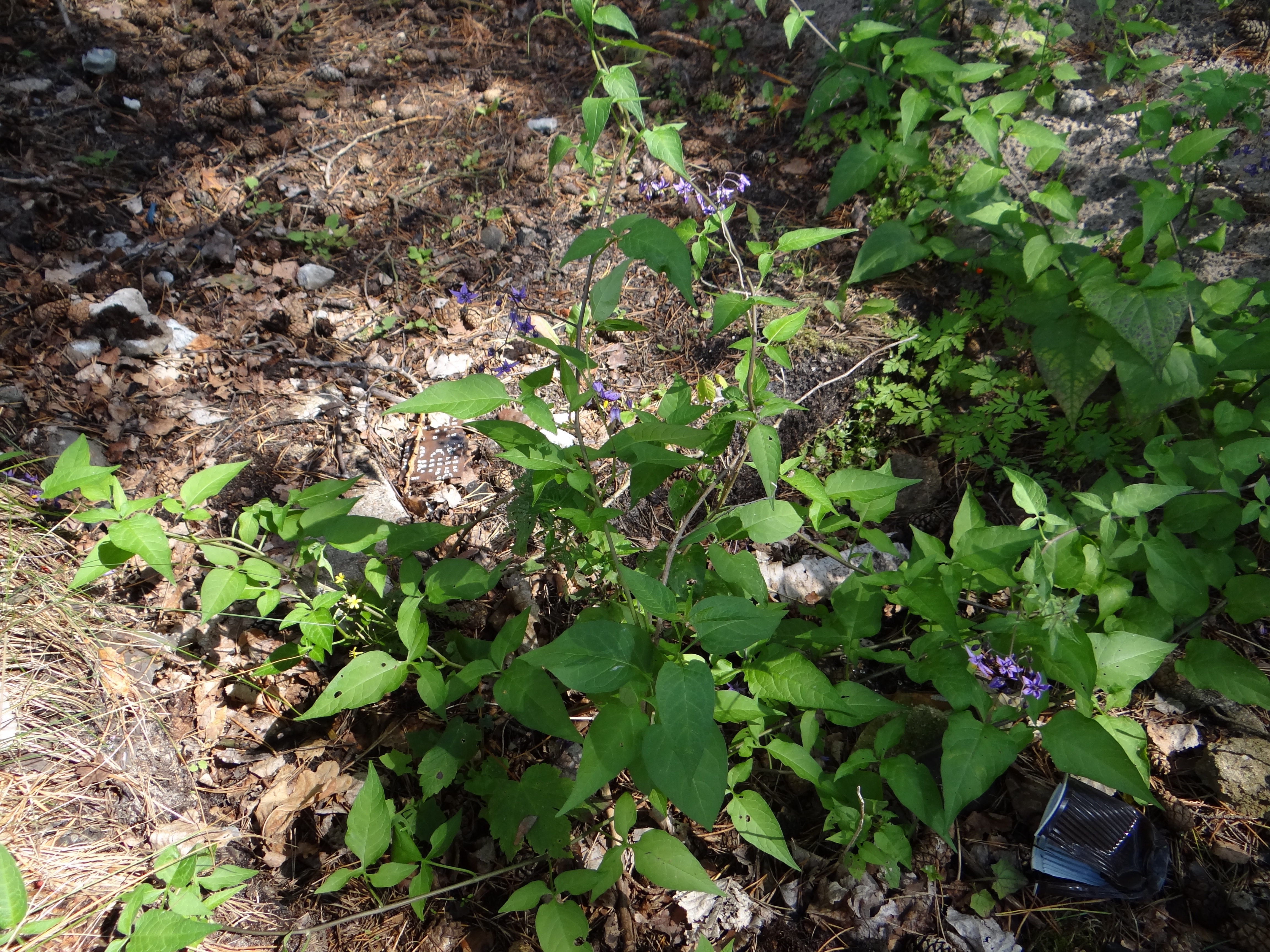 Solanum dulcamara (location: Poland, półwysep Hel)